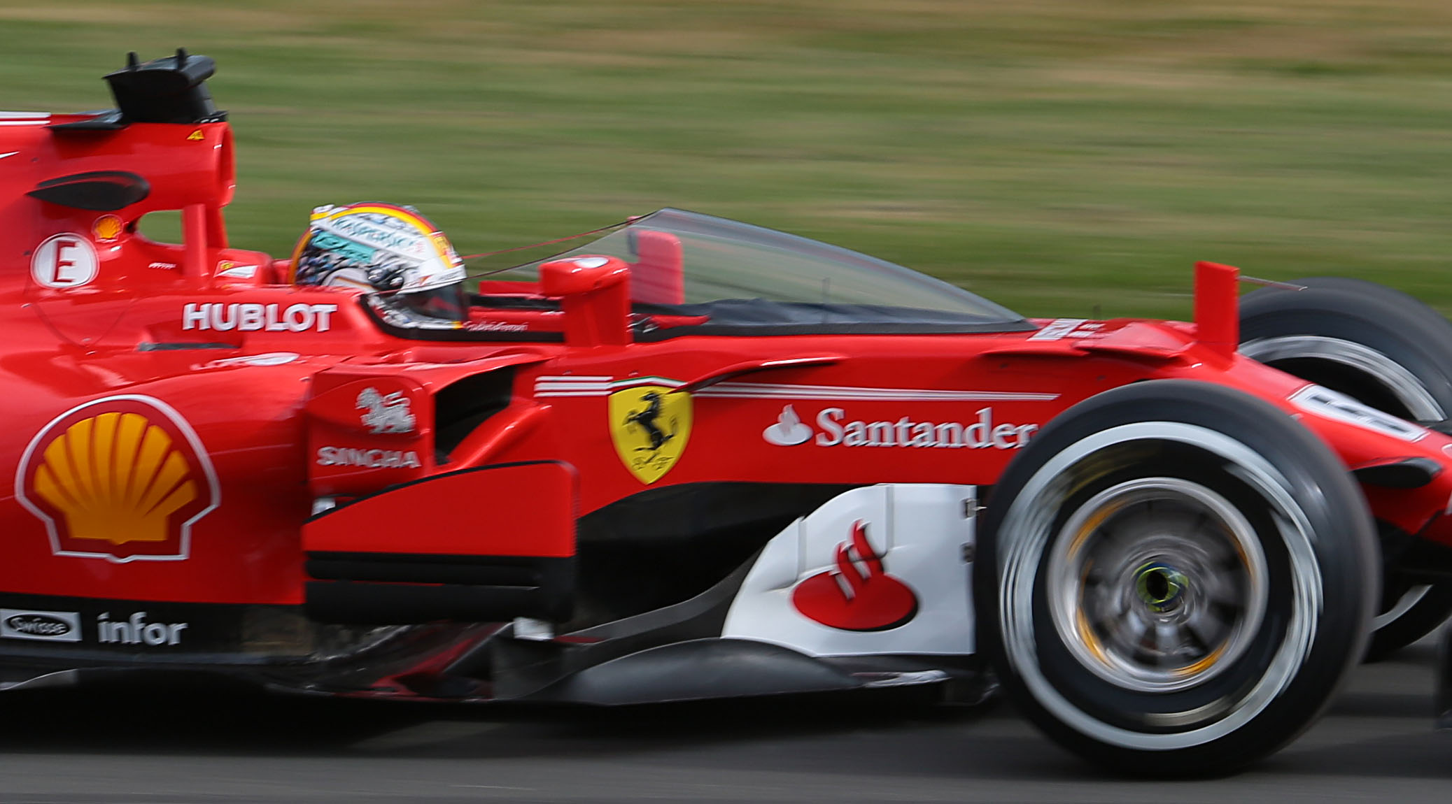 Scuderia Ferrari's driver Sebastian Vettel tests the 'Shield' frontal cockpit protection system, on his Ferrari SF70H, during the weekend of the 2017 British Grand Prix at Silverstone.